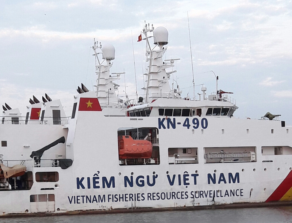 KN-490